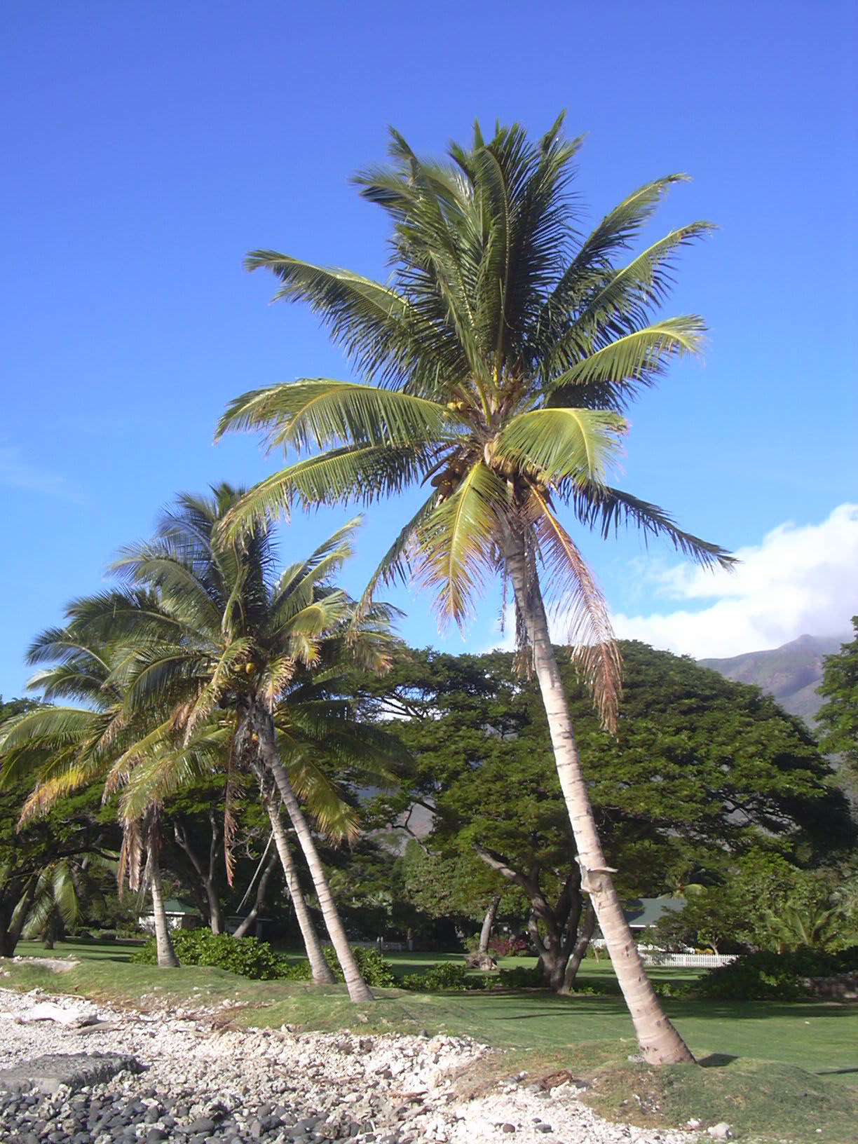 Cocos nucifera (habit). Location: Maui, Olowalu Pier